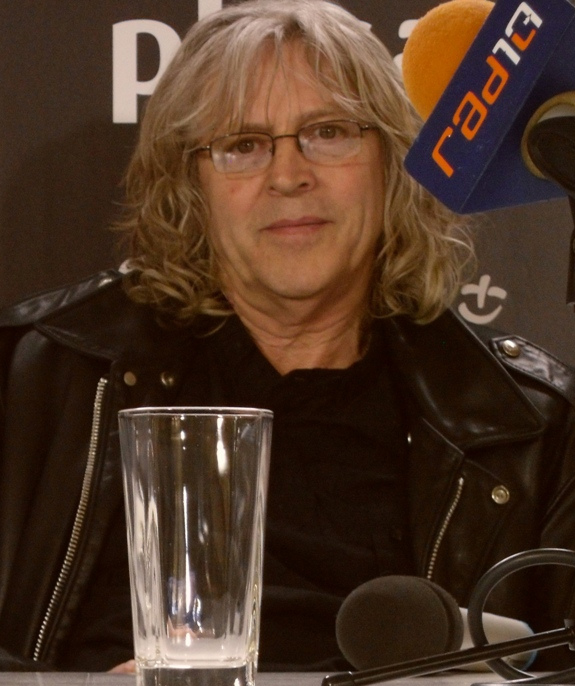 Roger Christian speaking at a panel at an independent film festival in Kleparz, Krakow, Lesser Poland.